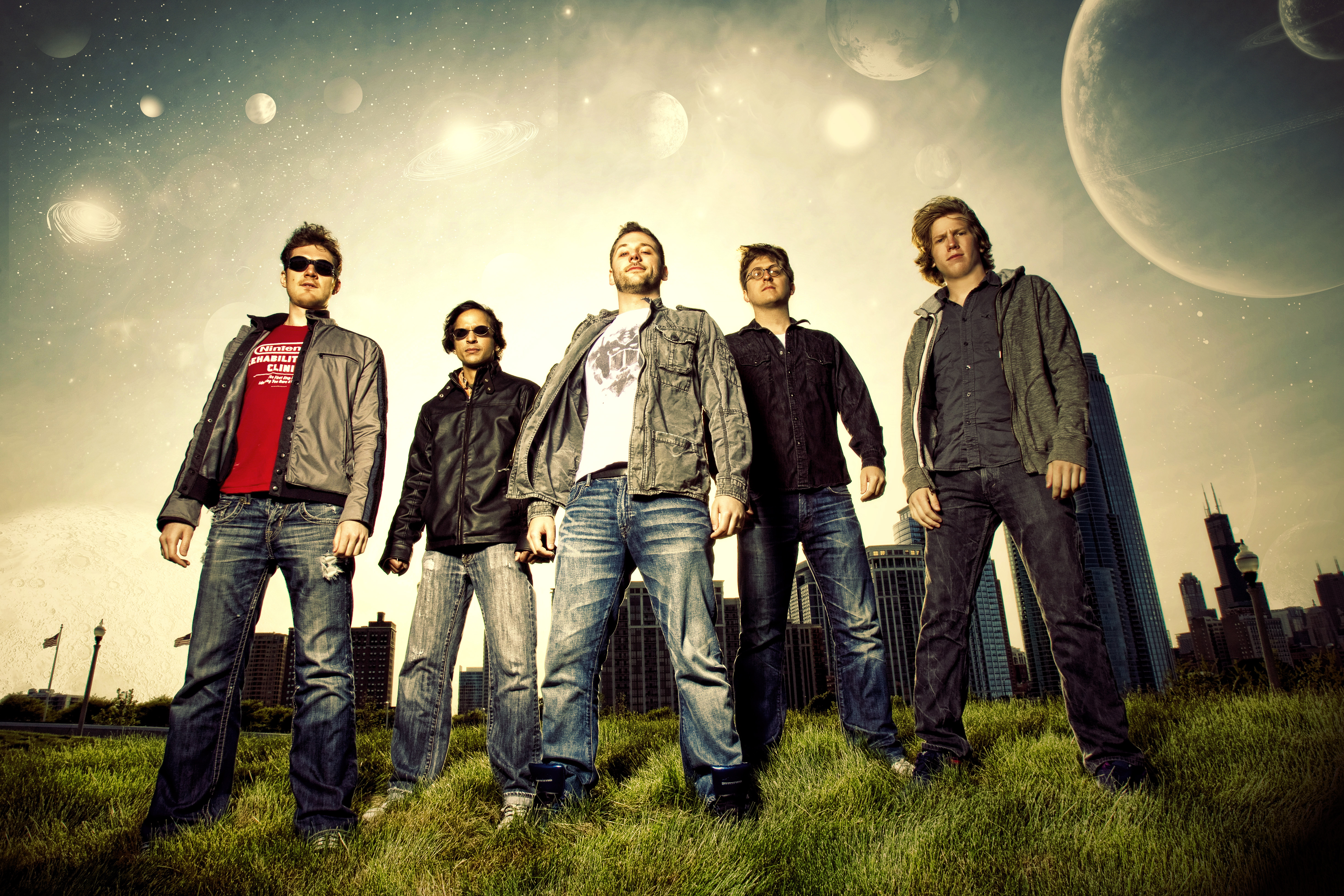 I Fight Dragons official press photo